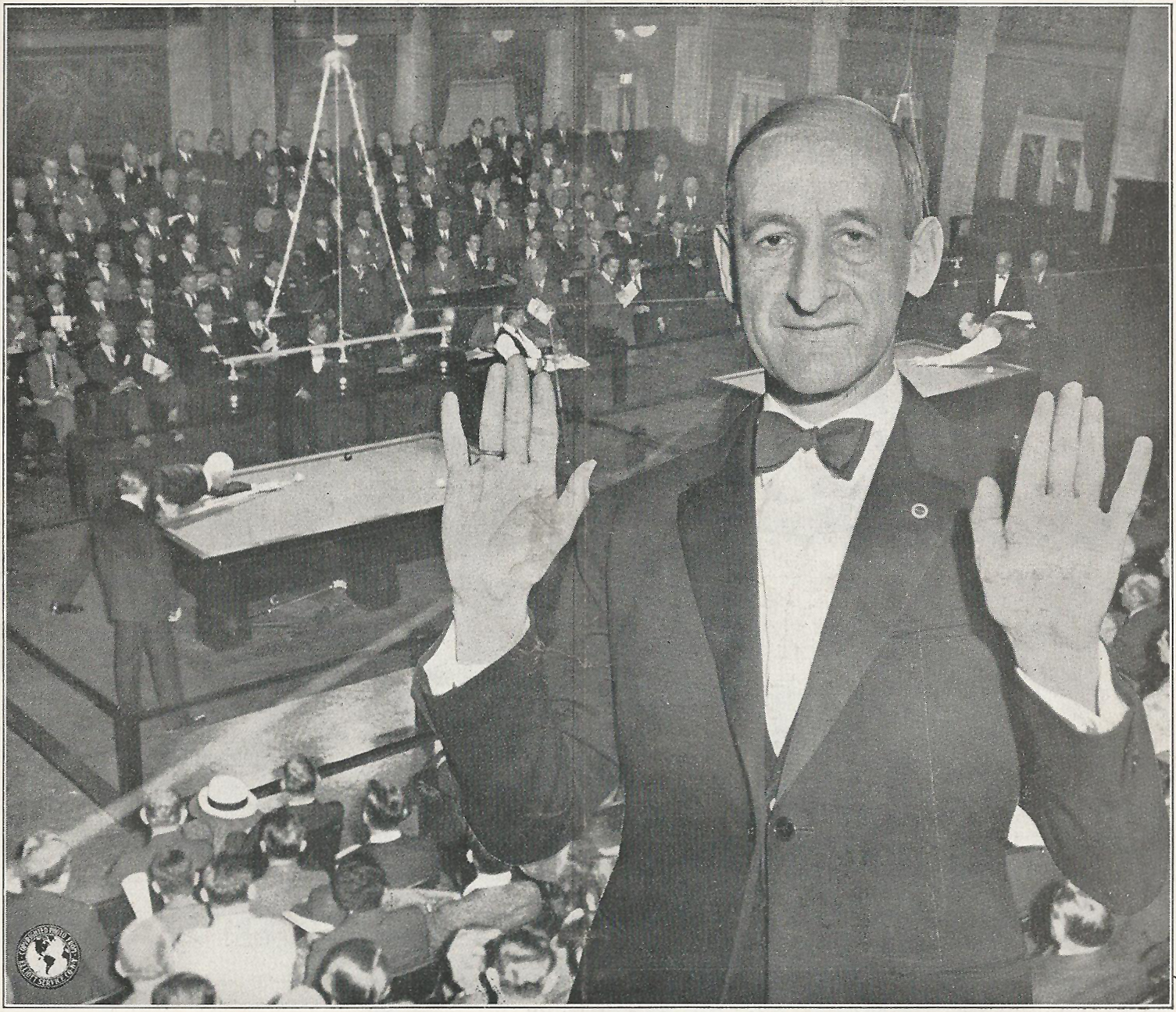 German carom billiards player Albert Poensgen at the 1932 Balkline 45/2 World Championship at Elks Lodge No. 32 in Brooklyn, New York defending his title. At the left table plays Carl Foerster (GER), standing beside him is the referee Albert Cutler. On the right table plays Worth Bergherm (USA), and on the chair between both tables sits Francis S. Appleby (USA).